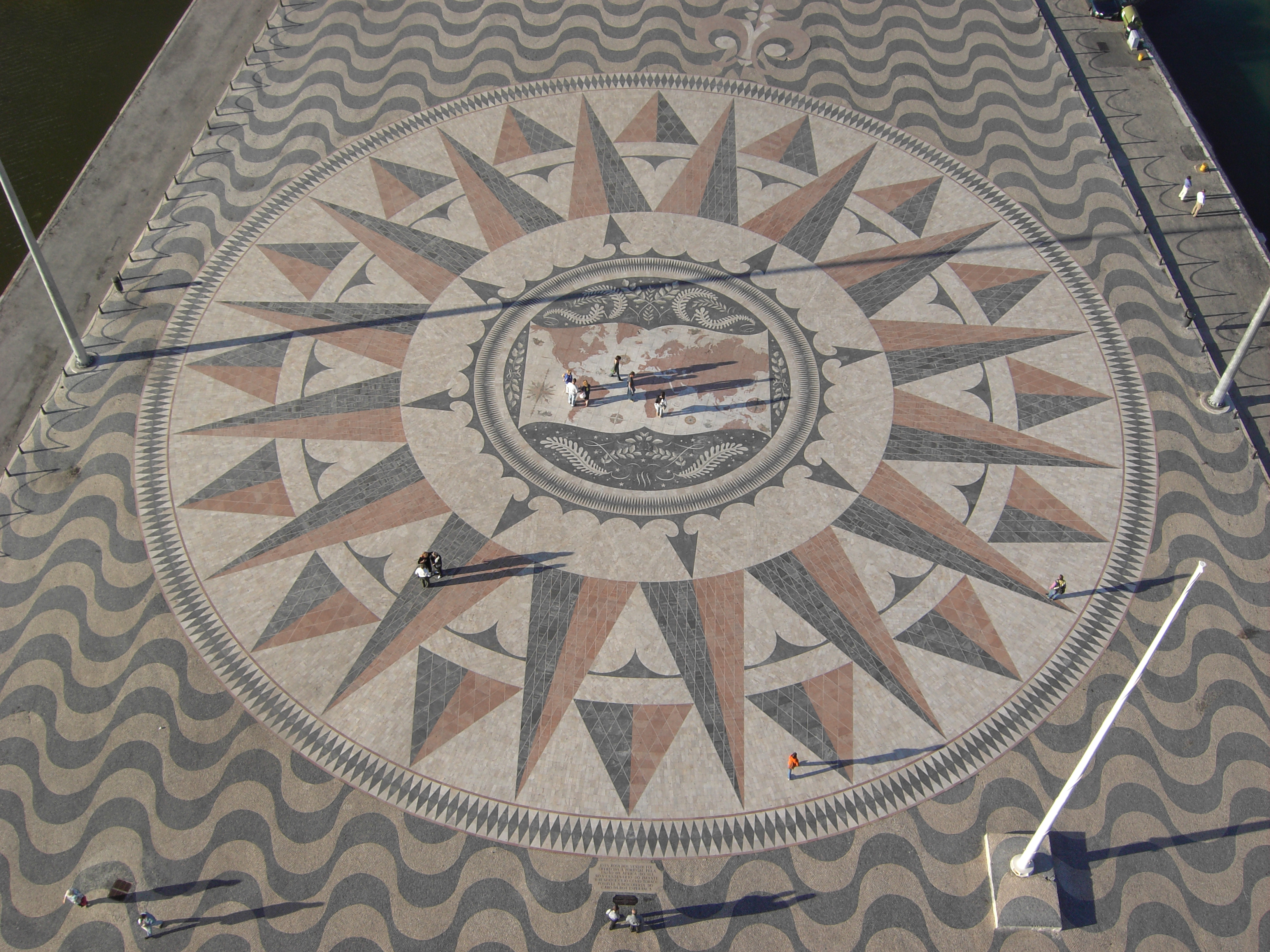 Wind rose in front of the Monument to the Discoveries, Lisbon, Portugal